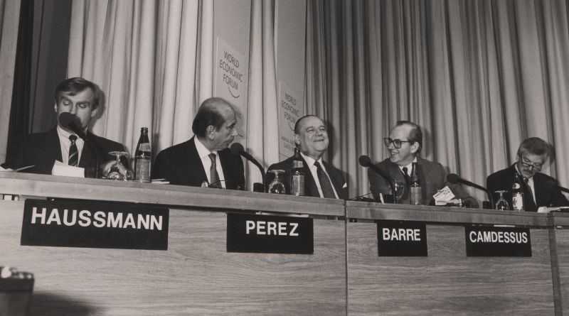 Helmut Haussmann, Carlos Andrés Pérez, Raymond Barre, Michel Camdessus and David Campbell Mulford captured during the Annual Meeting of the World Economic Forum held in Davos, Switzerland.